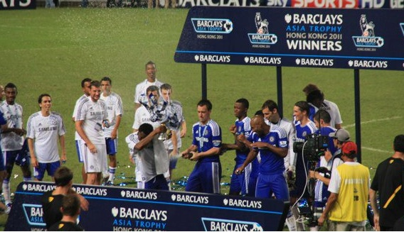 Chelsea Champion